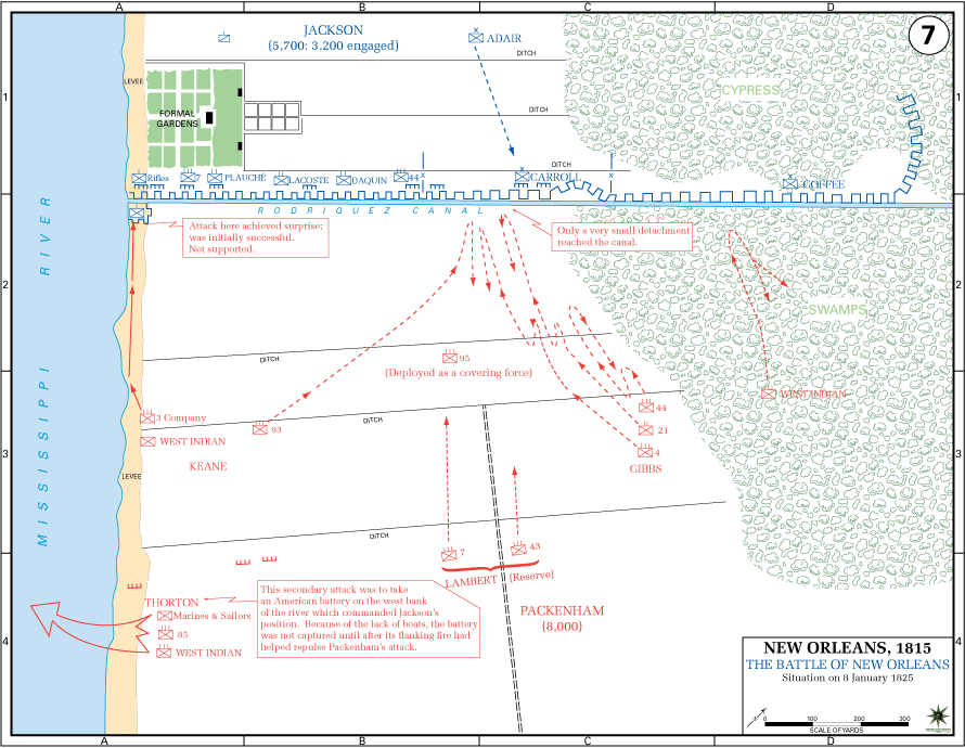 Map showing the state of the battle of new orleans